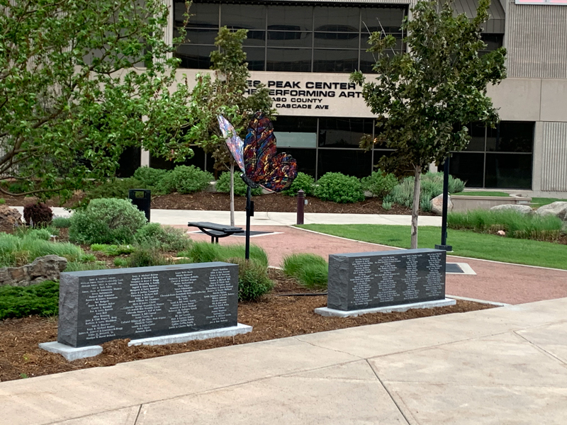 View of front entrance to the Pikes Peak Performing Art Center, in Colorado Spring, Colorado. This picture showcases the artwork "Cosmos Serenade" by Evette Goldstein.